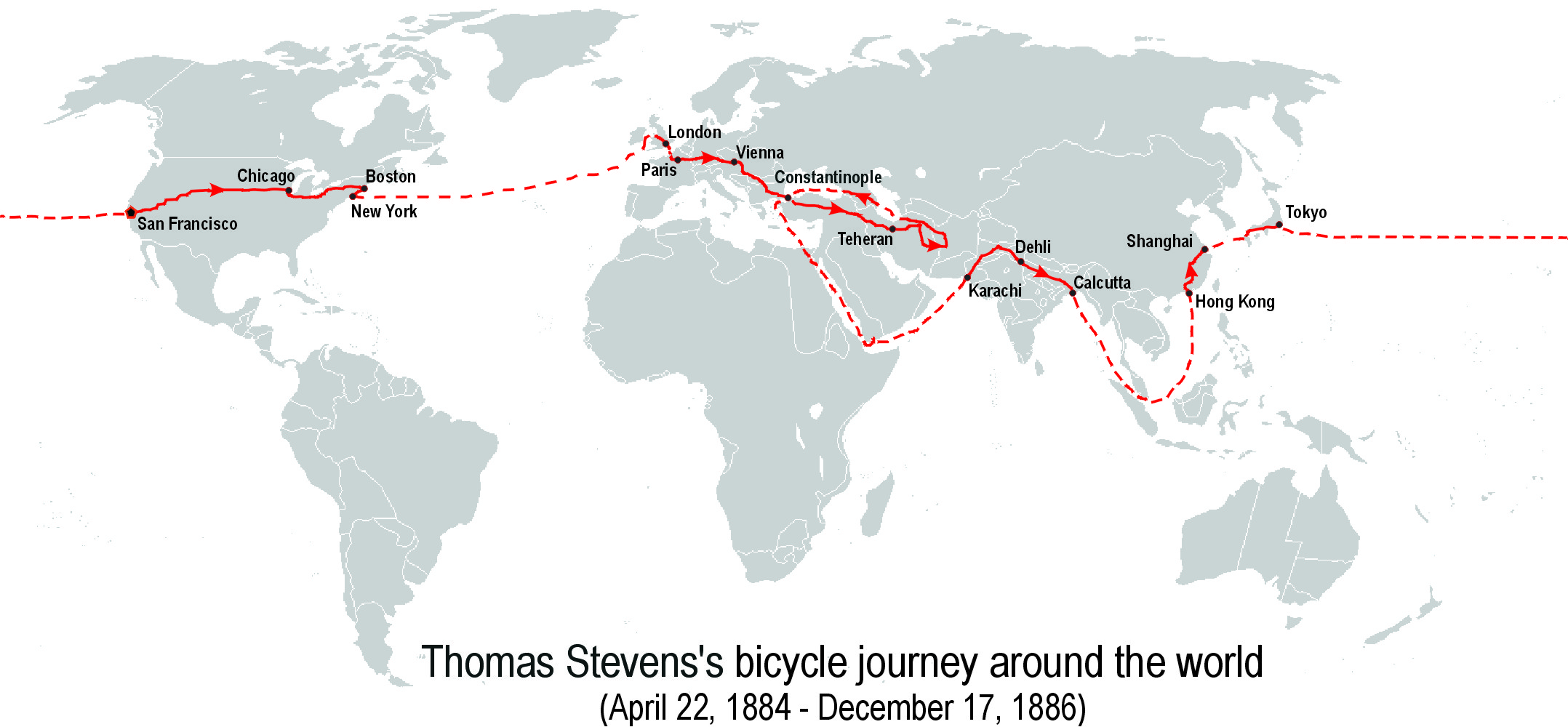 Map of Thomas Stevens' bicycle journey around the world